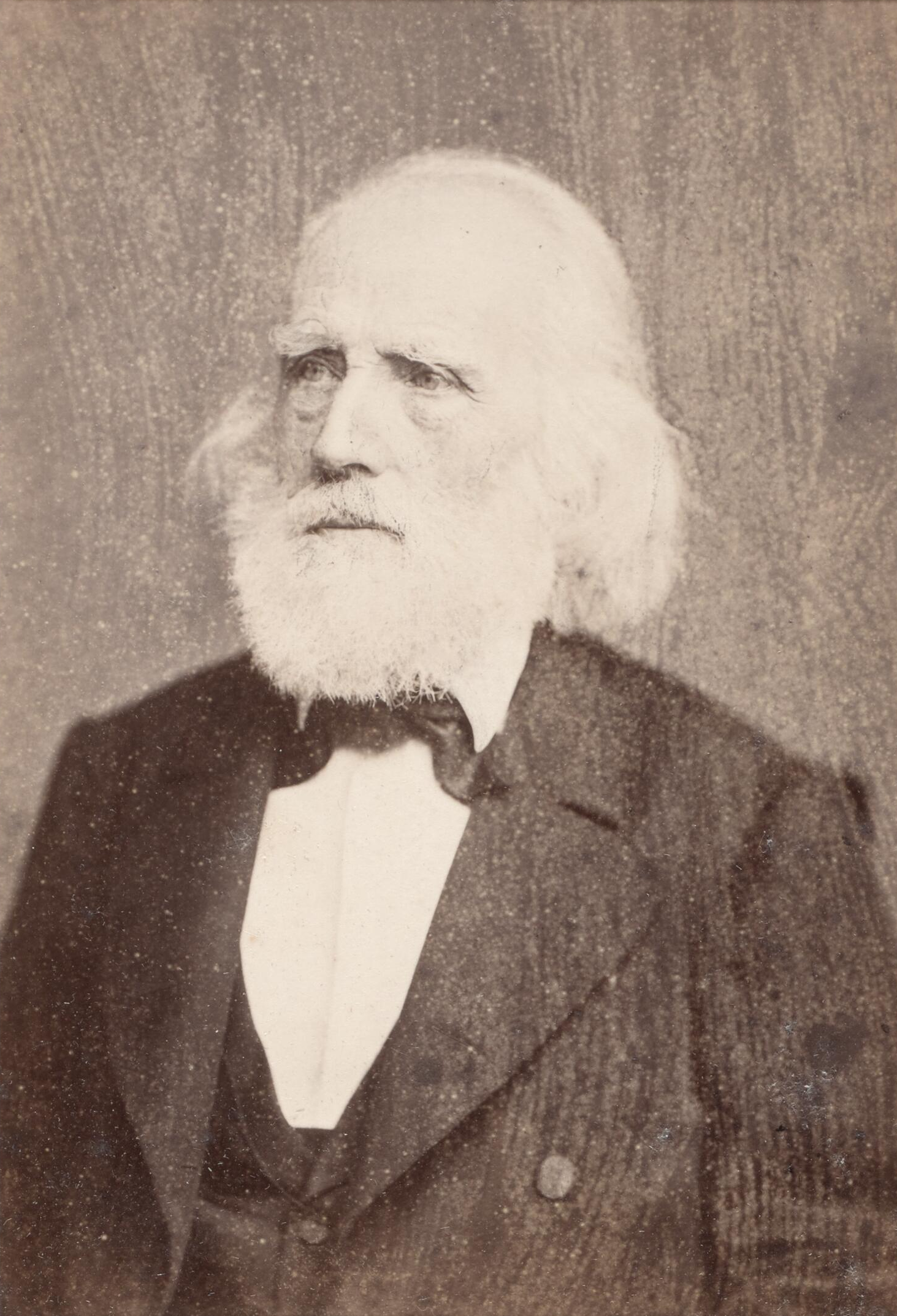 Plate 07 Photograph album of German and Austrian scientists. Berlin I: Alexander Braun.